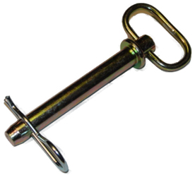 Hitch pin with R-clip.